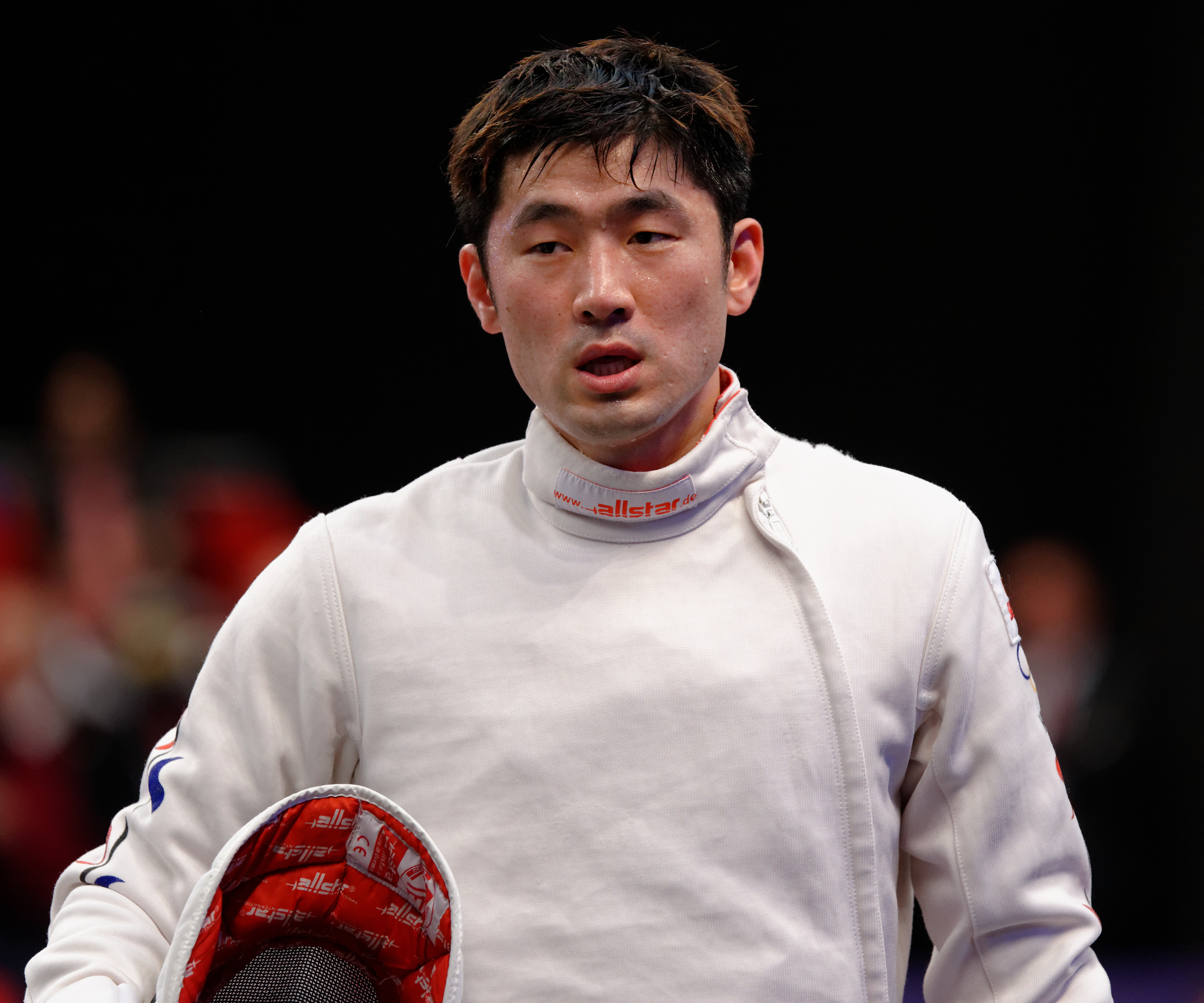 South Korea's Jung Jin-sun at the 2014 Challenge RFF-Trophée Monal, a men's épée World Cup event, on 3 May 2014.